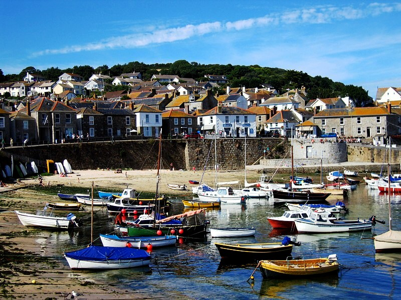 Mousehole - Cornwall - UK